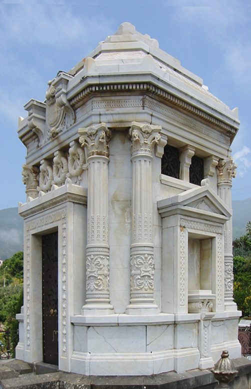 Victoria Garden in La Orotava (Spain), comissioned by la Quinta Roja Marquese and designed by french mason arcquitect Adolph Coquet, s.XIX. It's still not clear the masonic signify of this mausoleum, never used as a tomb.